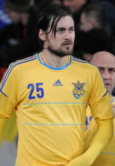 Artem Milevskyy